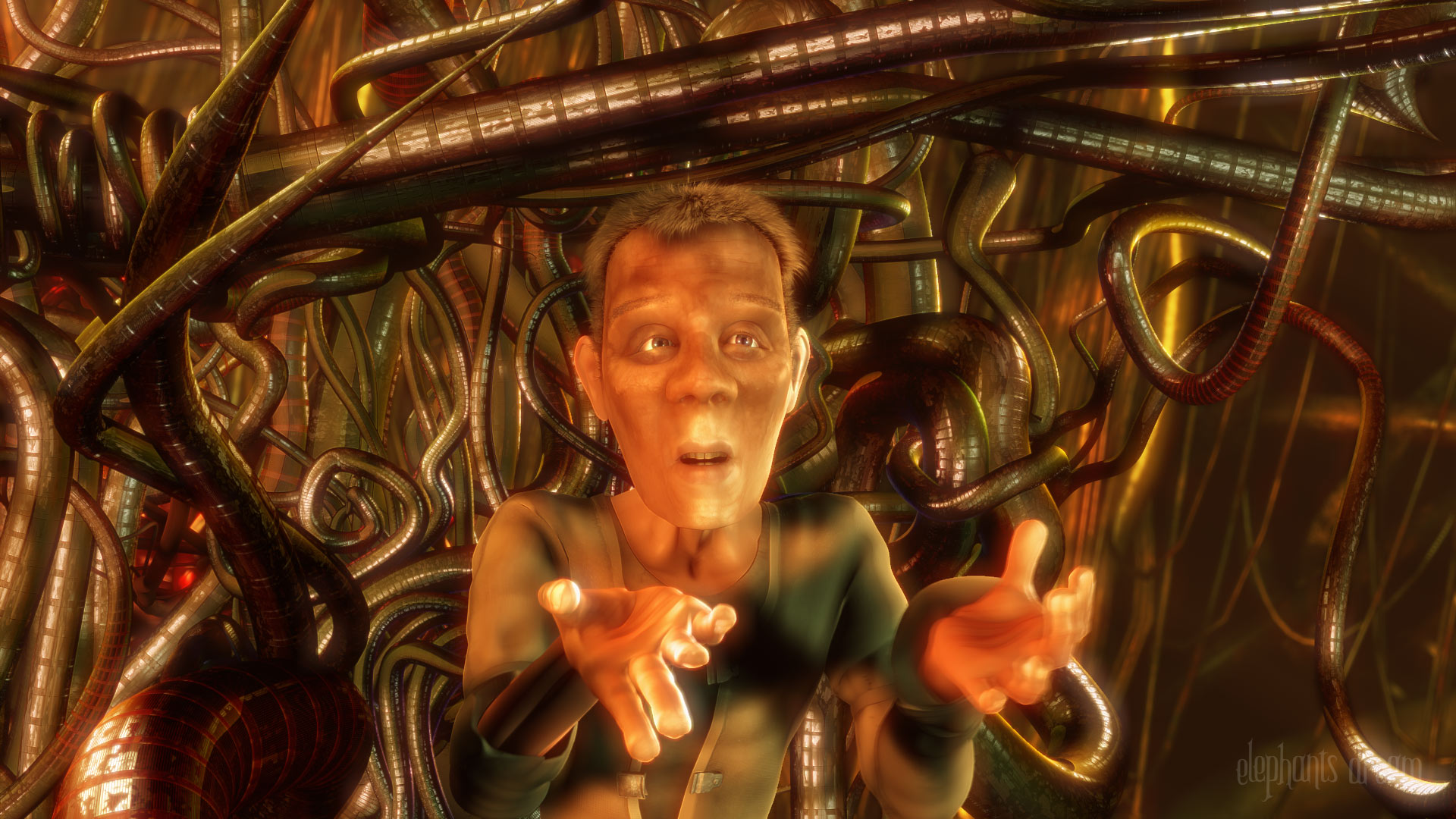 Image from the film Elephants Dream.